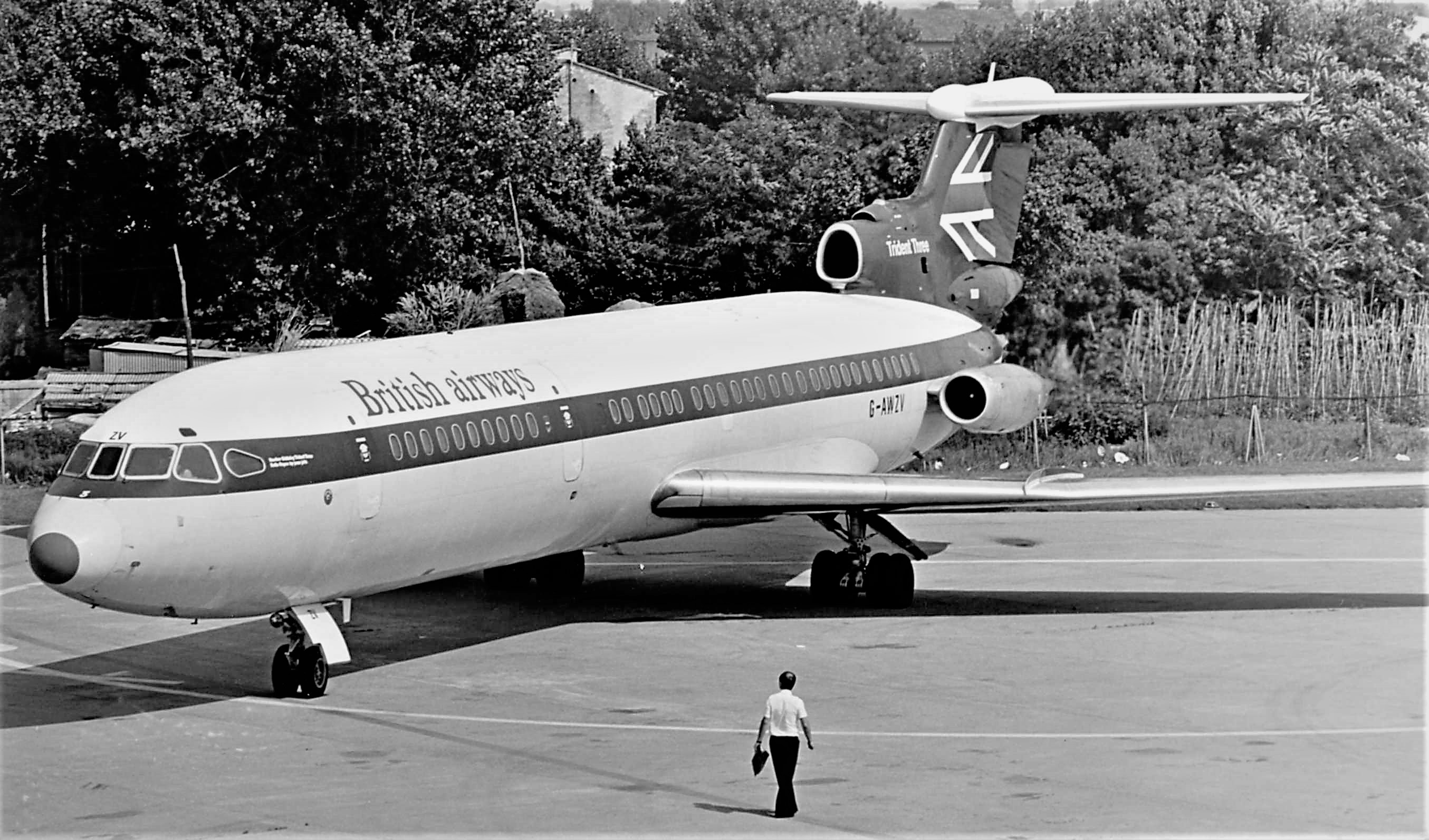 British Airways Hawker Siddeley Trident-3B, G-AWZV, c/n 2322, delivered to British Airways in 1972-08-09. Sold to Air Charter Services (Zaire) presumably in 1986, was then broken up for spares.